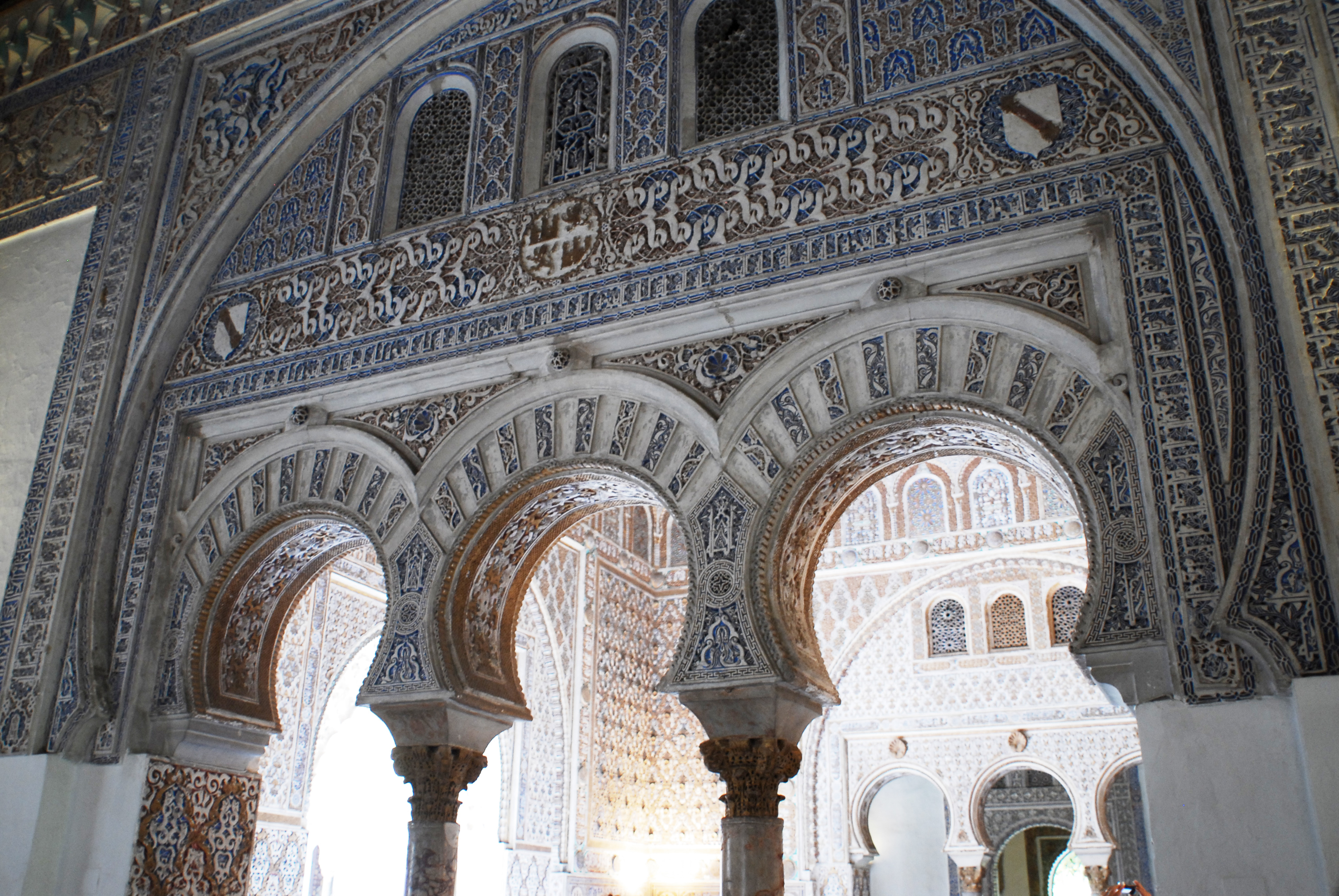 Moorish Palace Arches in the Alcazar in Seville (UNESCO World Heritage Site). Seville, Andalusia, Spain, Southwestern Europe.